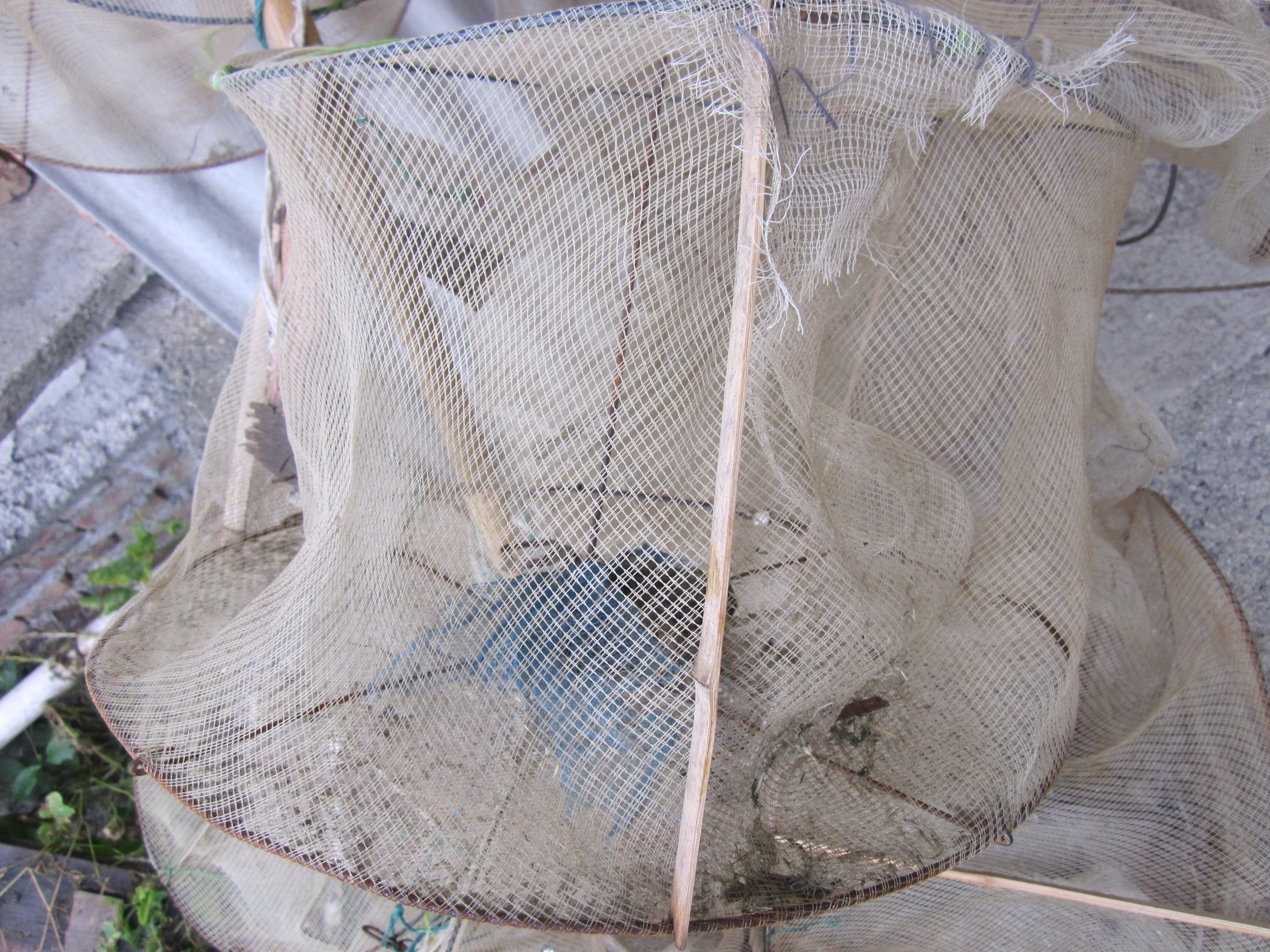 Yulong, it is a kind of fishing gear.